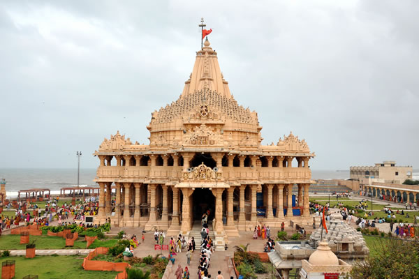 ગુજરાતી: Somnath Temple